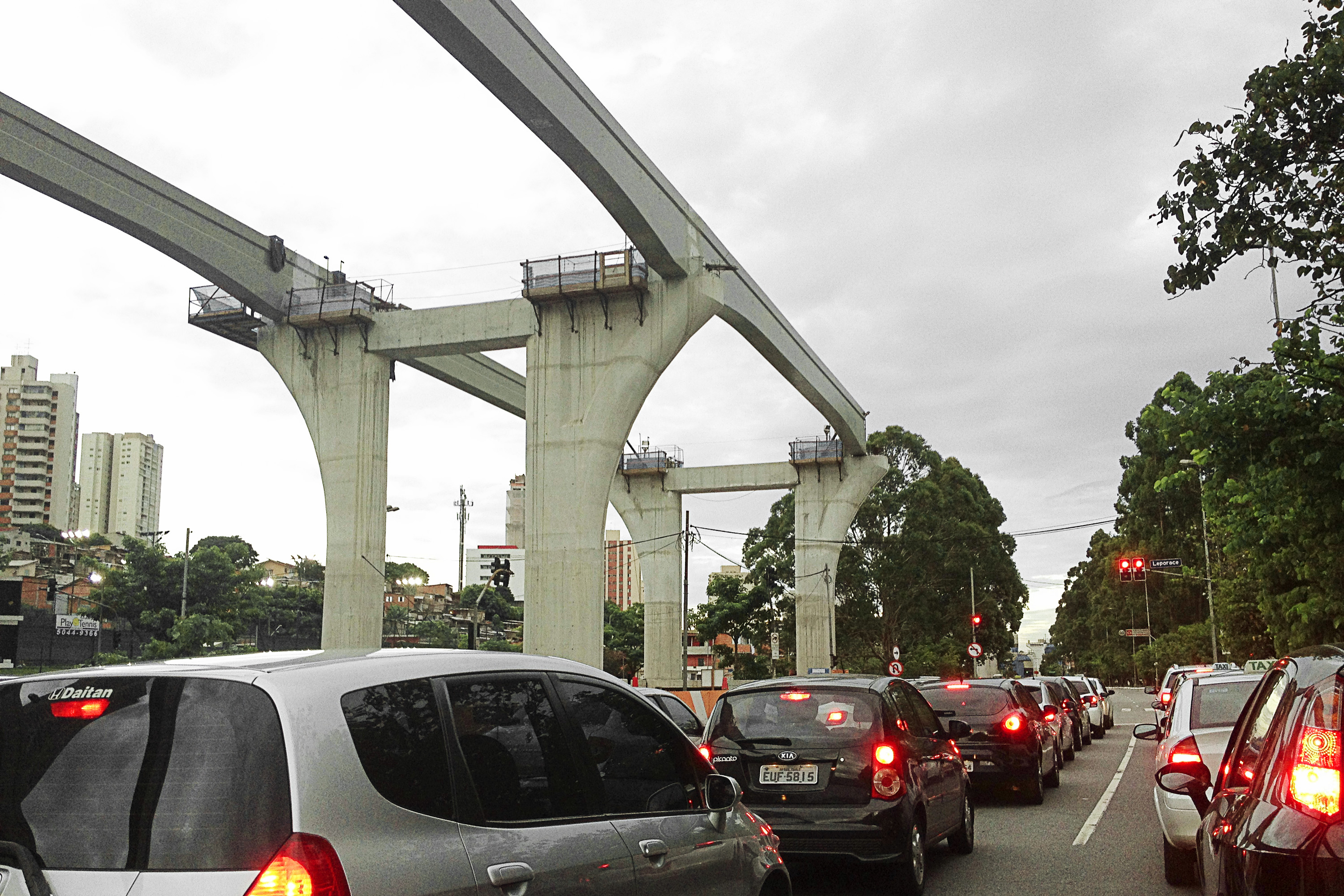 Construction of Line 17 of the São Paulo Subway, at Jornalista Roberto Marinho Avenue.